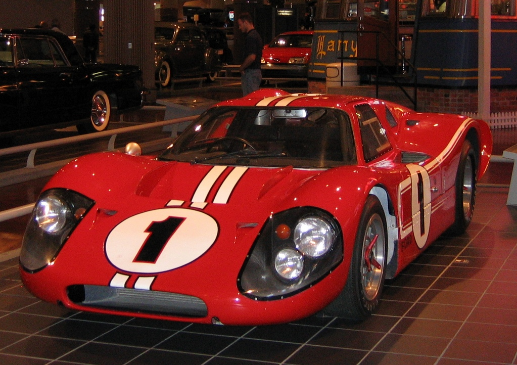 Classic GT40 Mark IV